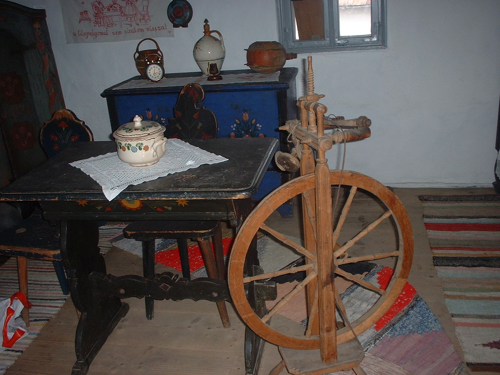 Region house in Remetea. Folk exhibit and Tibor Cseres memorial roomTájház benne néprajzi gyűjtemény és a Cseres Tibor emlékszoba Gyergyóremetén